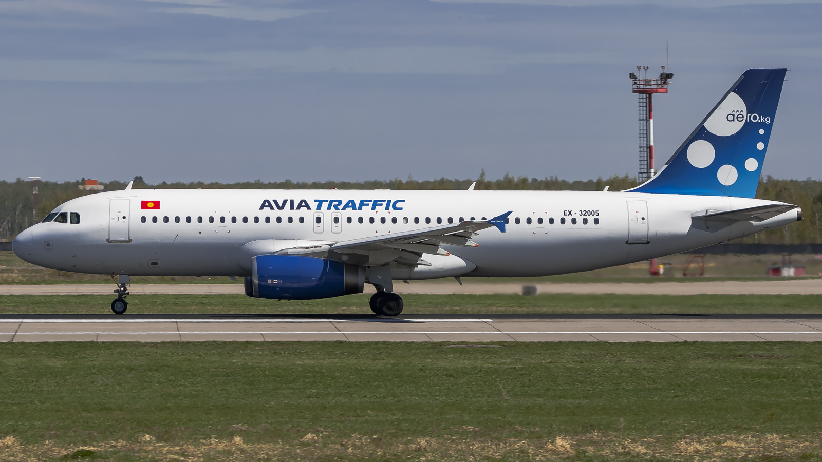 EX-32005 Airbus A320 Avia Traffic DME - UUDD